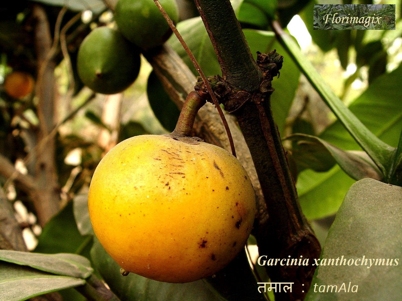 The fruit is golden yellow, globose with a stout stalk, five persistent sepals and a woody point obliquely placed on the lower side, which is the remnant of the coherent bundle of staminodes